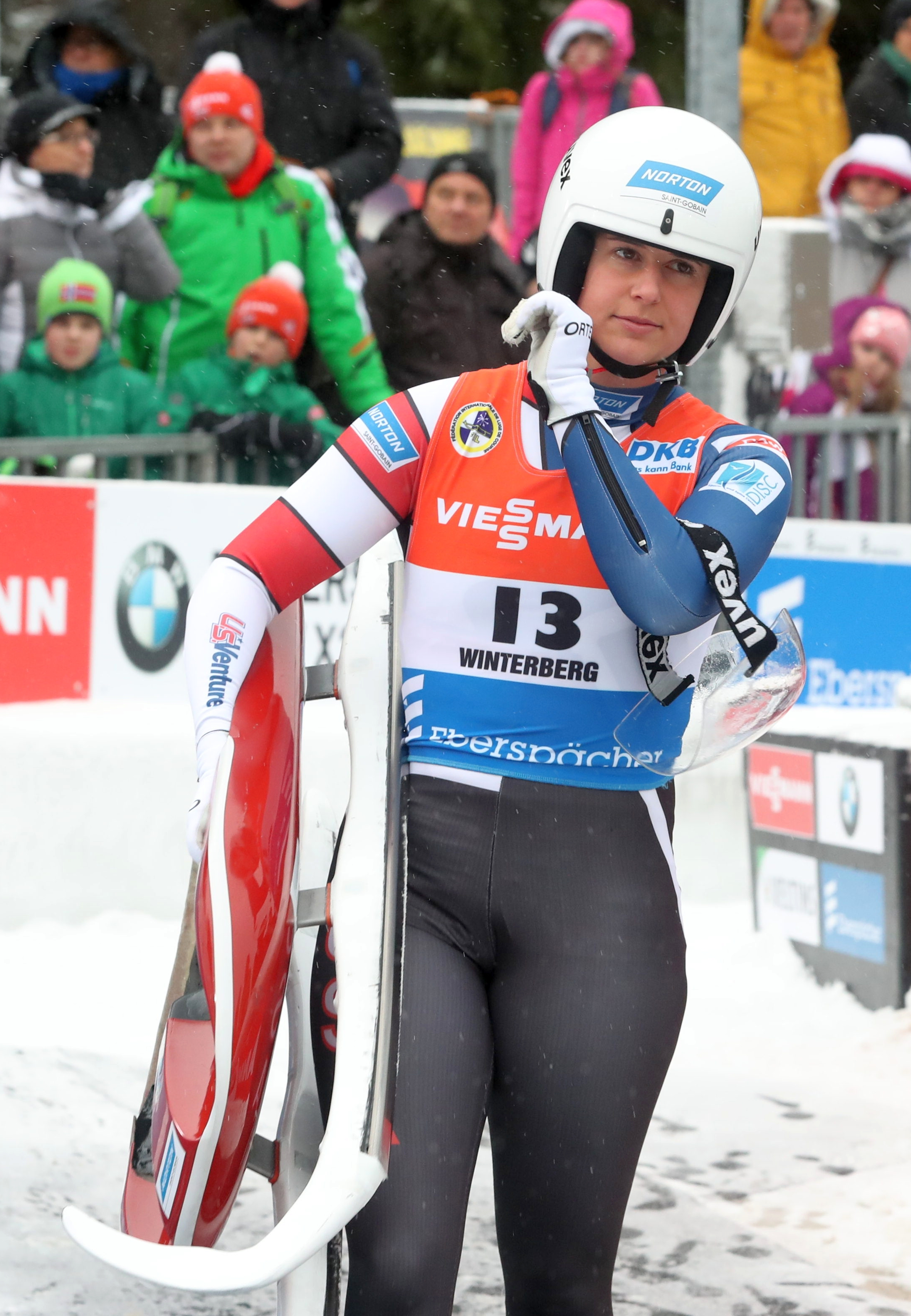 Luge World Cup Women in Winterberg: Emily Sweeney